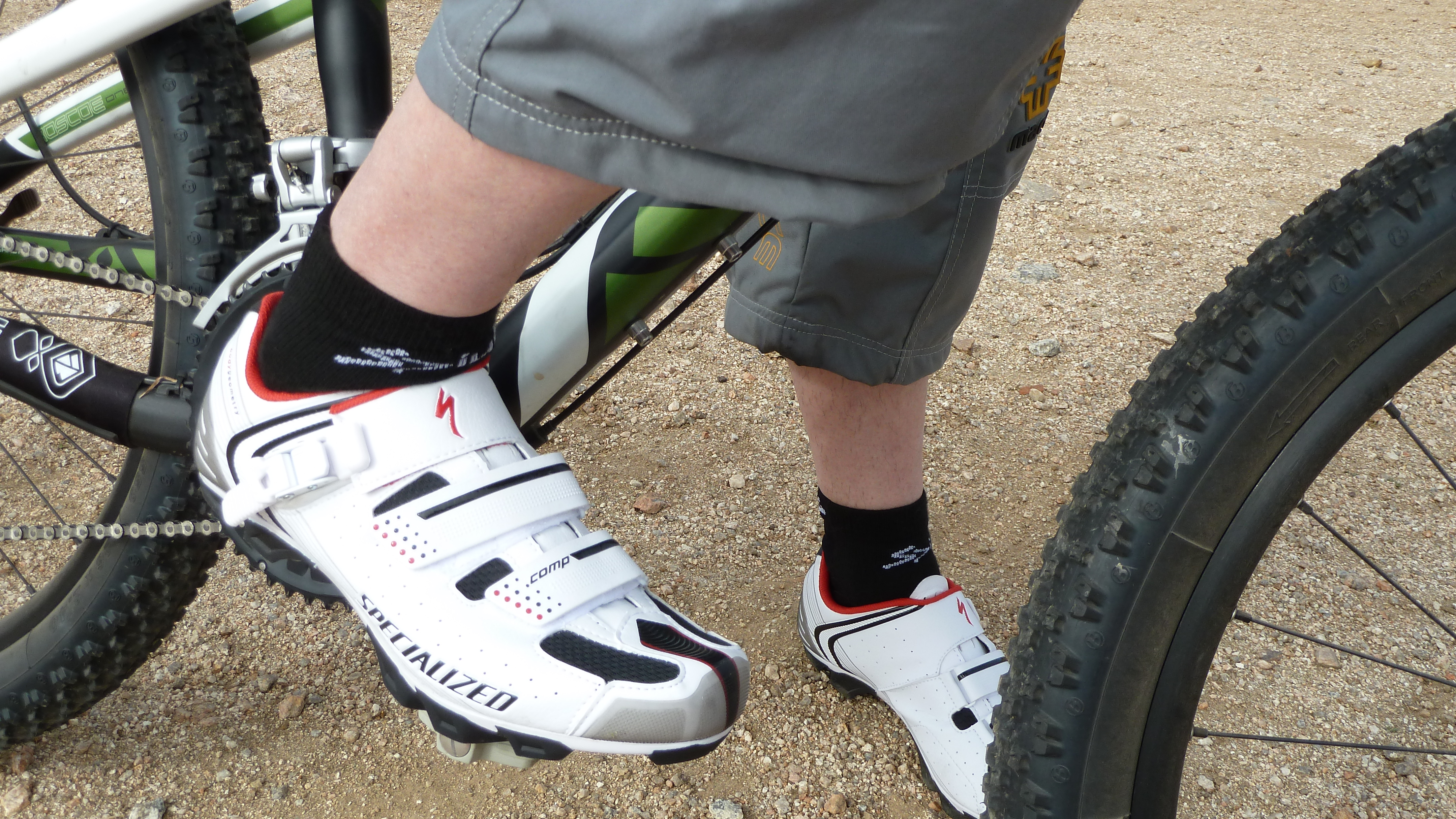 Bike´s shoes MTB. Specialized Comp